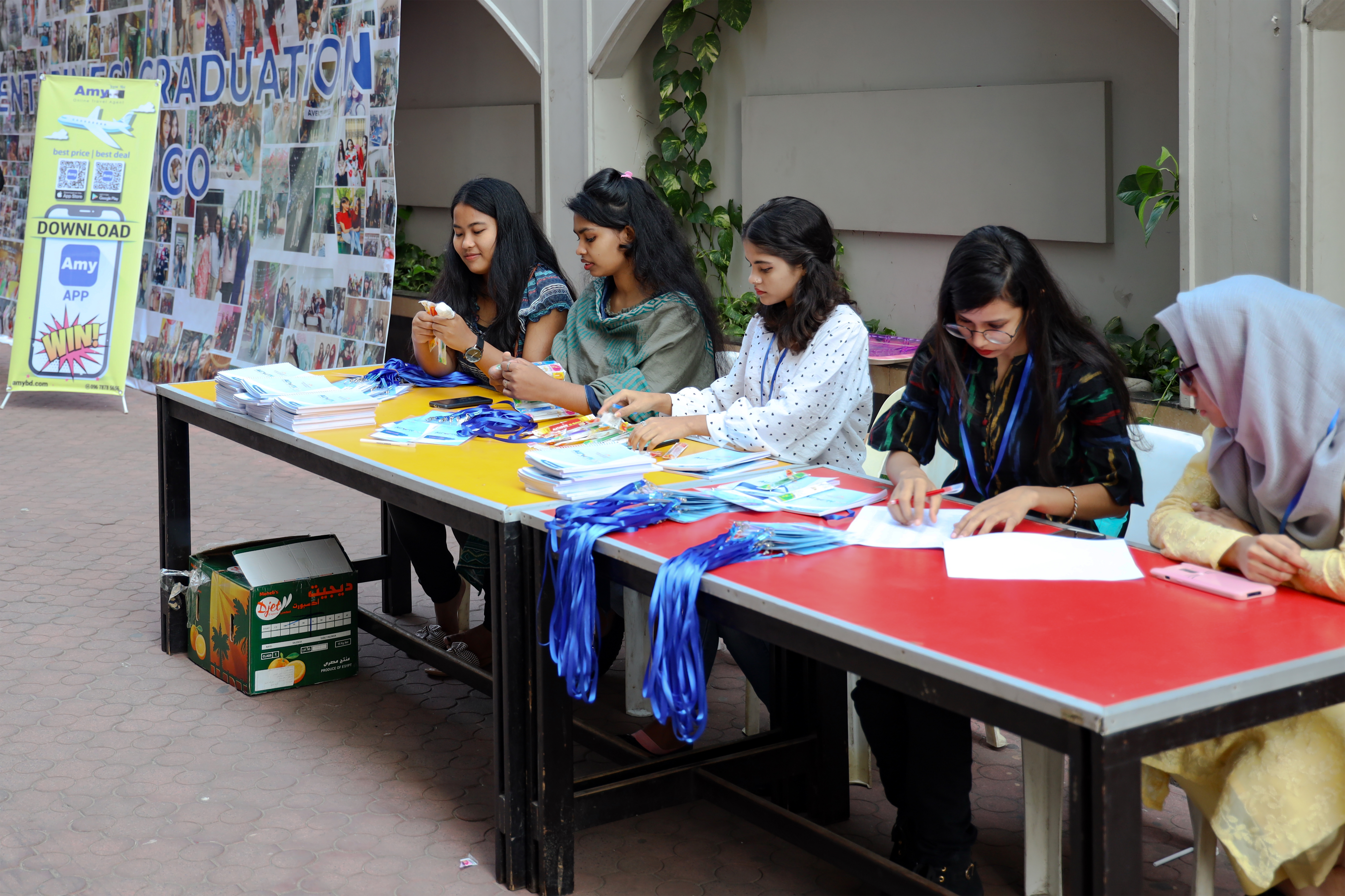 AUW Inter-Versity Debate Championship 2020, Chattogram, Bangladesh.